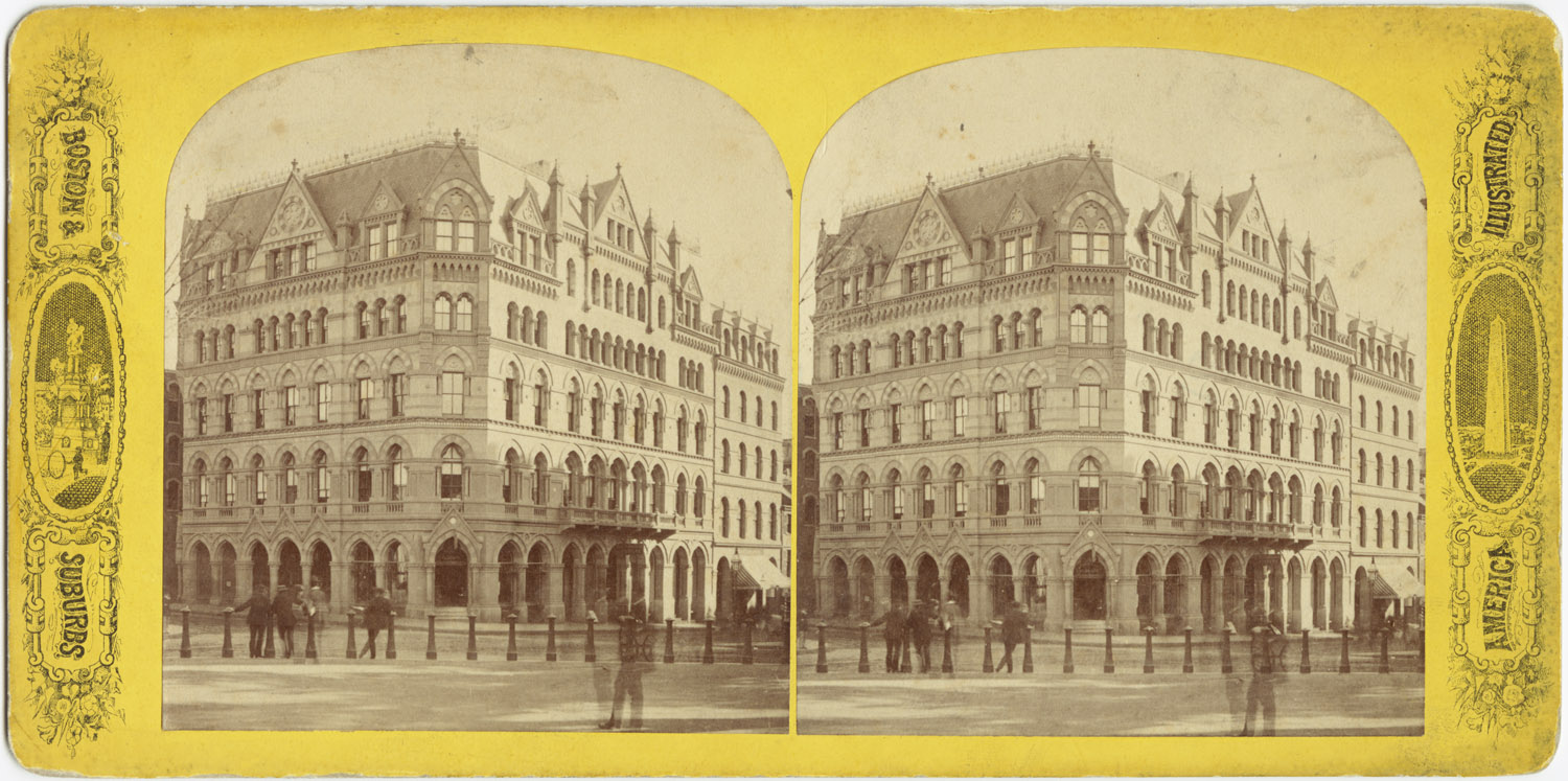 Accession No.: 06_11_000379 Title: Hotel Boylston, cor. Boylston, Tremont Sts. Series: Boston & Suburbs. America Illustrated Local Subject: Hotels Commercial Buildings Subject: Boston (Mass.) Format: Sterographs BPL Department: Print